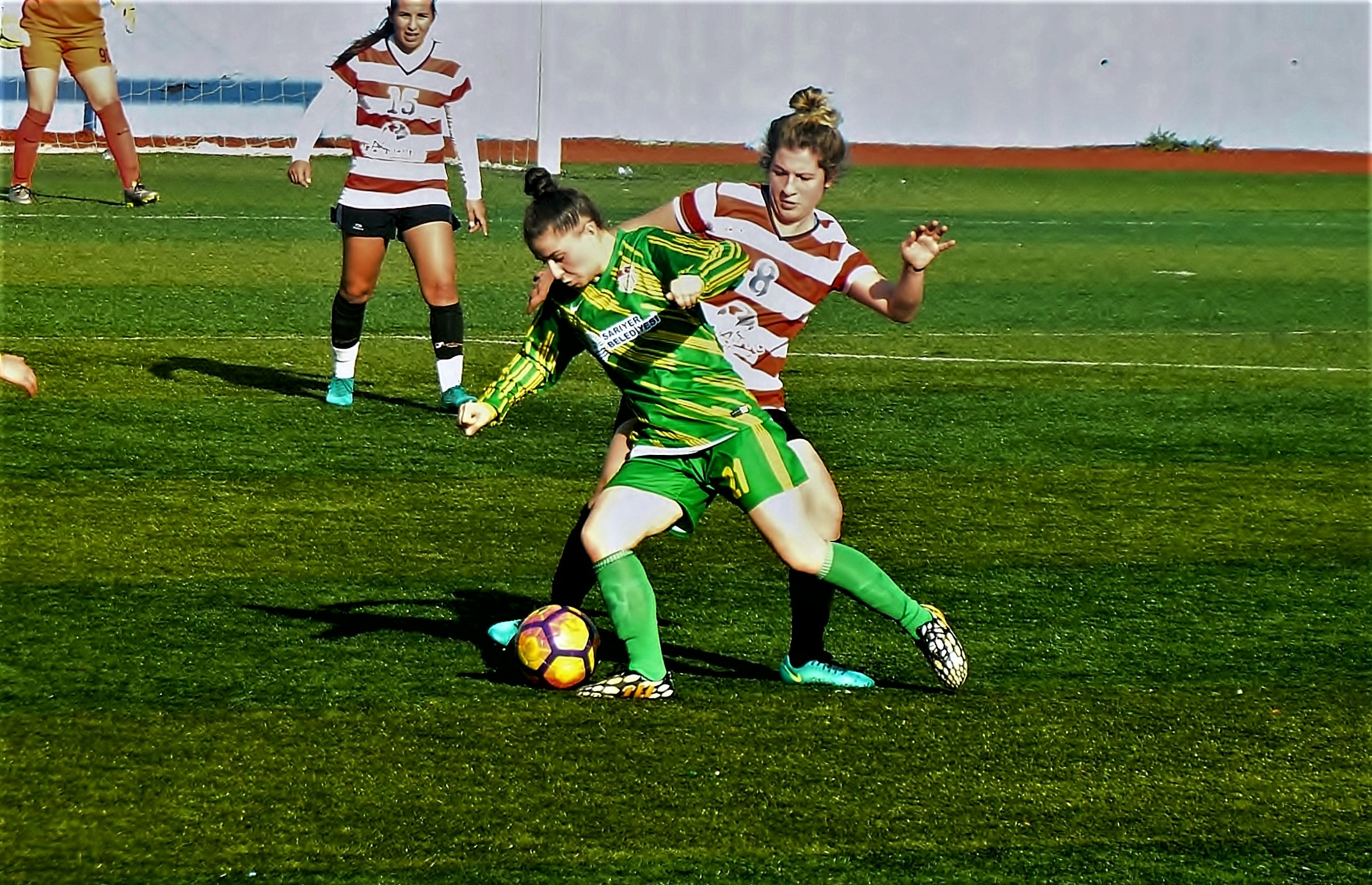 Nagihan Avanaş (green/yellow) of Kireçburnu Spor challenged by Serra Çağan (white/orange) of 1207 Antalya Spor in the 2017-18 Turkish Women's First Football League.